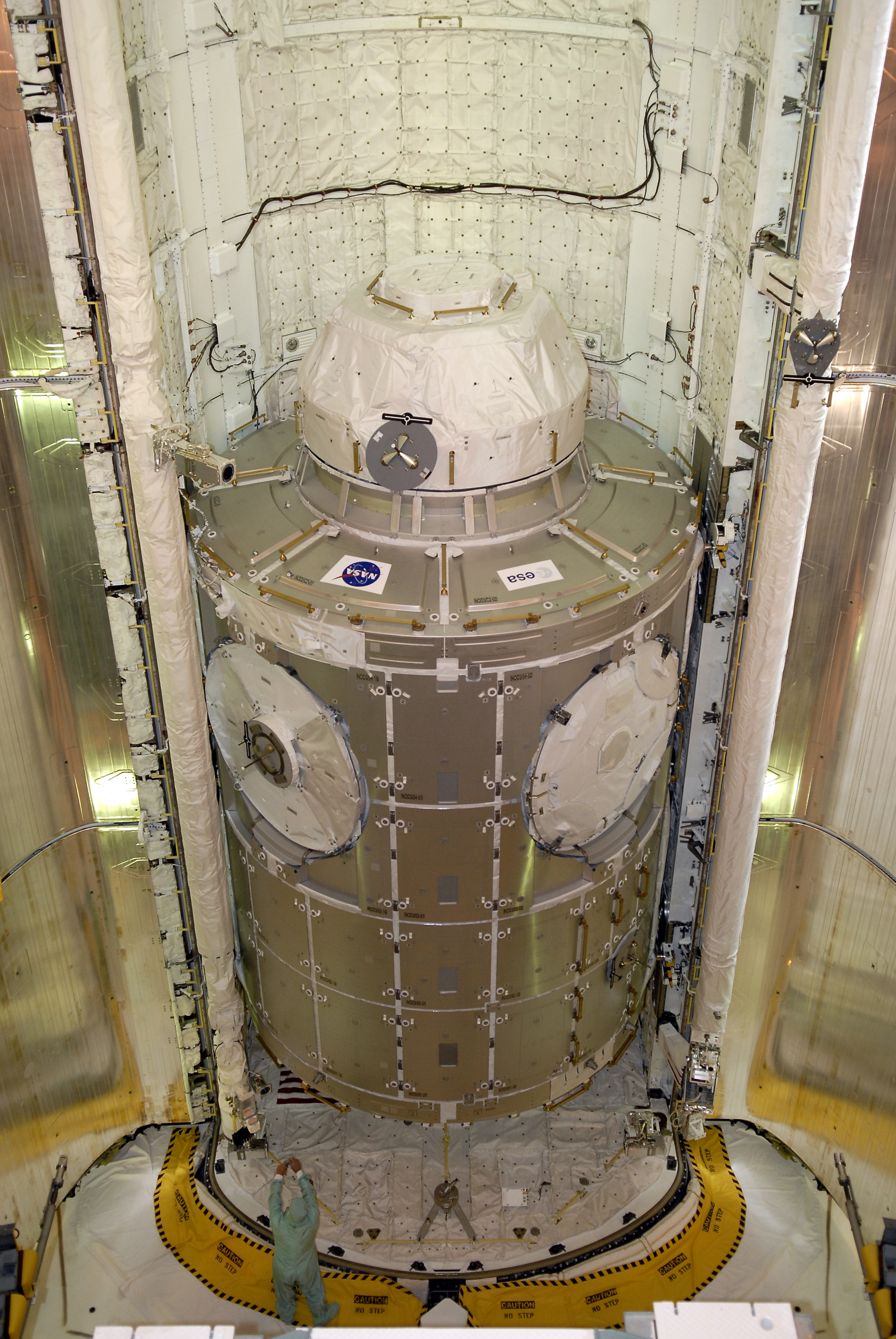 CAPE CANAVERAL, Fla. - At Launch Pad 39A at NASA's Kennedy Space Center in Florida, the camera captures the Tranquility node -- perhaps the final time it will be photographed on Earth -- before space shuttle Endeavour's payload bay doors are closed around it for launch. Tranquility, the primary payload for Endeavour's STS-130 mission, is a pressurized module that will provide room for many of the International Space Station's life support systems. Attached to one end of Tranquility is a cupola, a unique work area with six windows on its sides and one on top. The cupola resembles a circular bay window and will provide a vastly improved view of the station's exterior. The multi-directional view will allow the crew to monitor spacewalks and docking operations, as well as provide a spectacular view of Earth and other celestial objects. The module was built in Turin, Italy, by Thales Alenia Space for the European Space Agency. Endeavour's launch is targeted for Feb. 7. For information on the STS-130 mission and crew, visit